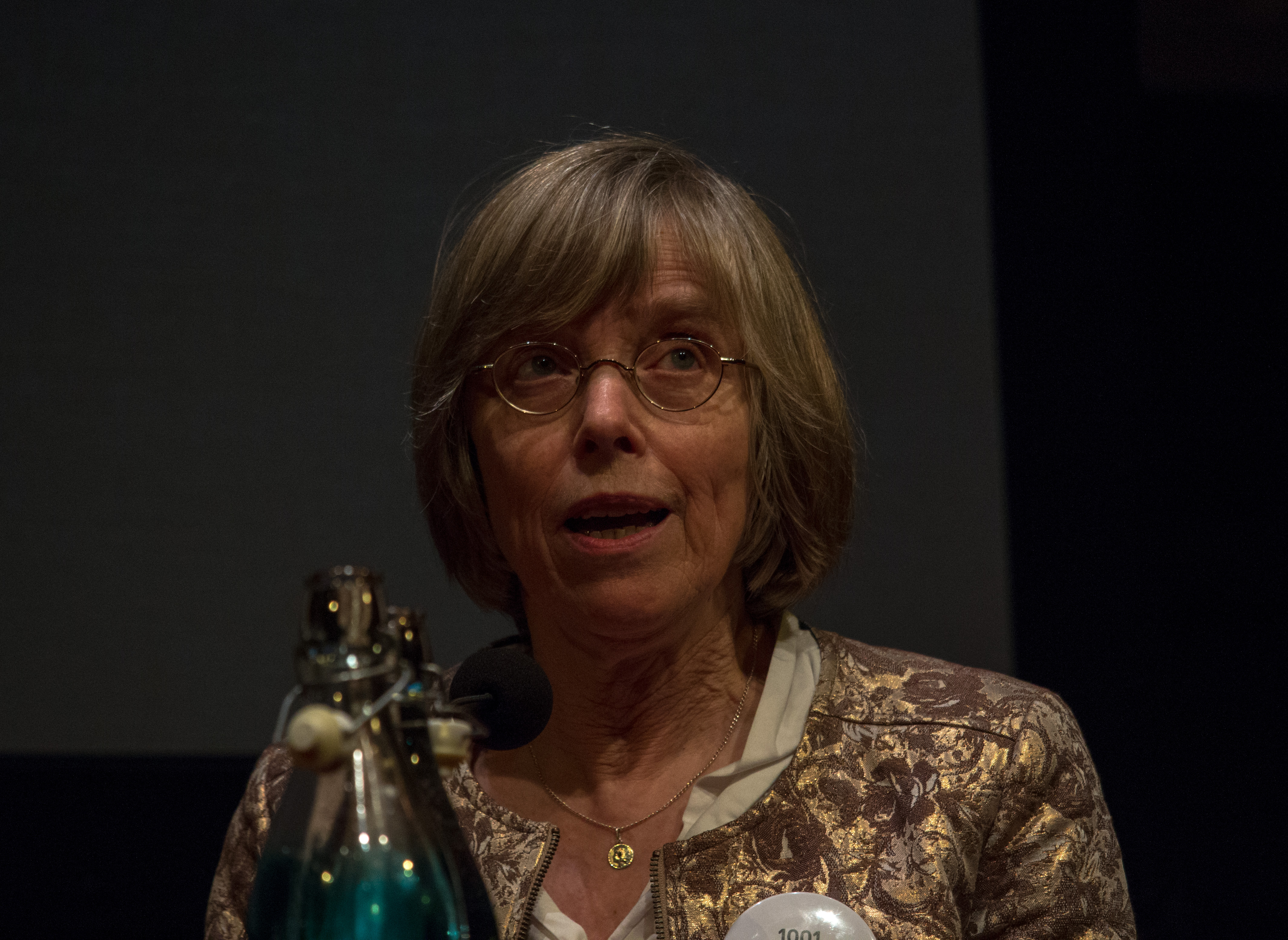 Marjan Schwegman at the fundraising party for the second volume of the book "1001 vrouwen"